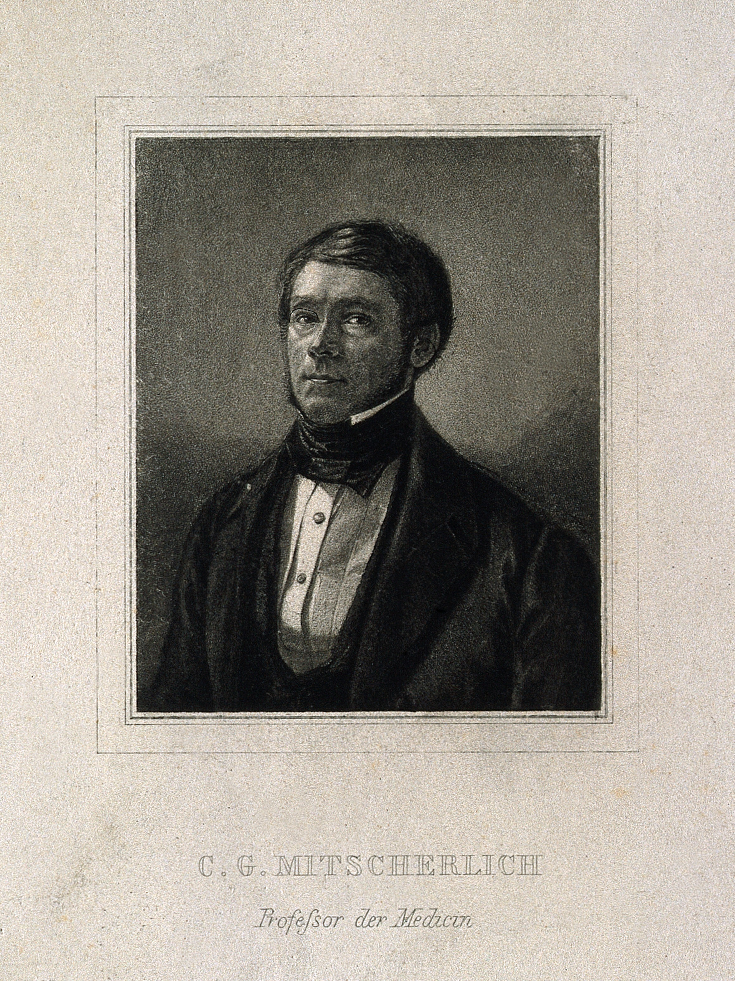 Karl Gustav Mitscherlich. Stipple engraving. Iconographic Collections Keywords: portrait prints; stipple prints; Karl Gustav Mitscherlich